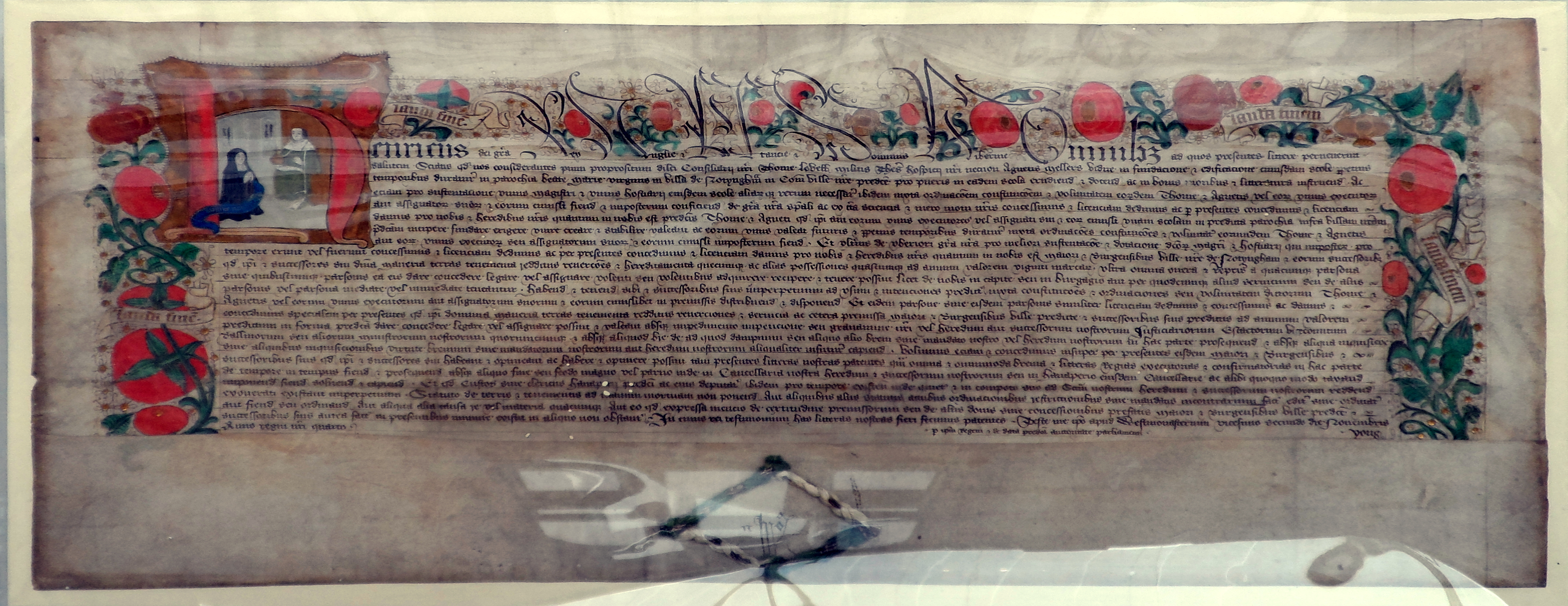 Original 1512 charter, granted to Dame Agnes Mellers and Sir Thomas Lovell by Henry VIII, approving the foundation of a free grammar school in Nottingham (later Nottingham High School).